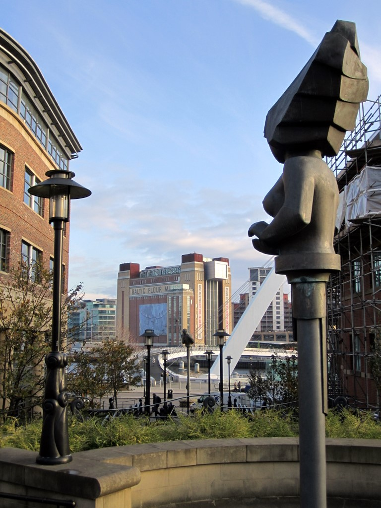 'Siren' by André Wallace, Sandgate Steps